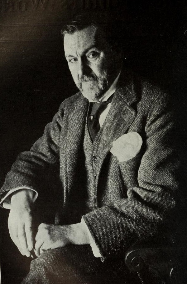 Portrait of Robert W. DeForest, president of the Metropolitan Museum of Art